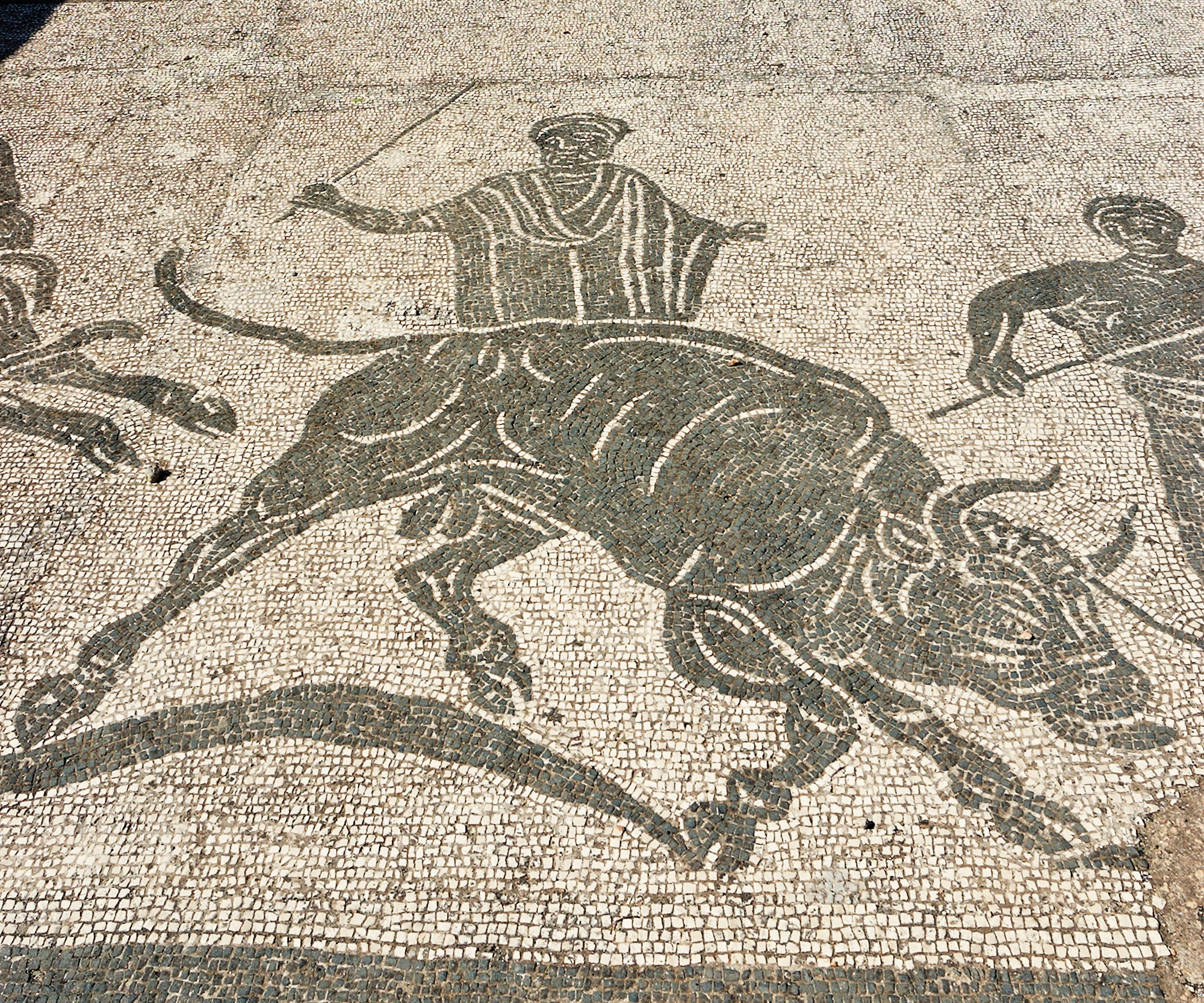 Two attendants lead a bull to sacrifice. Mosaic in the vestibule of the Augusteum, Caserma dei Vigili, Ostia Antica, Latium, Italy.